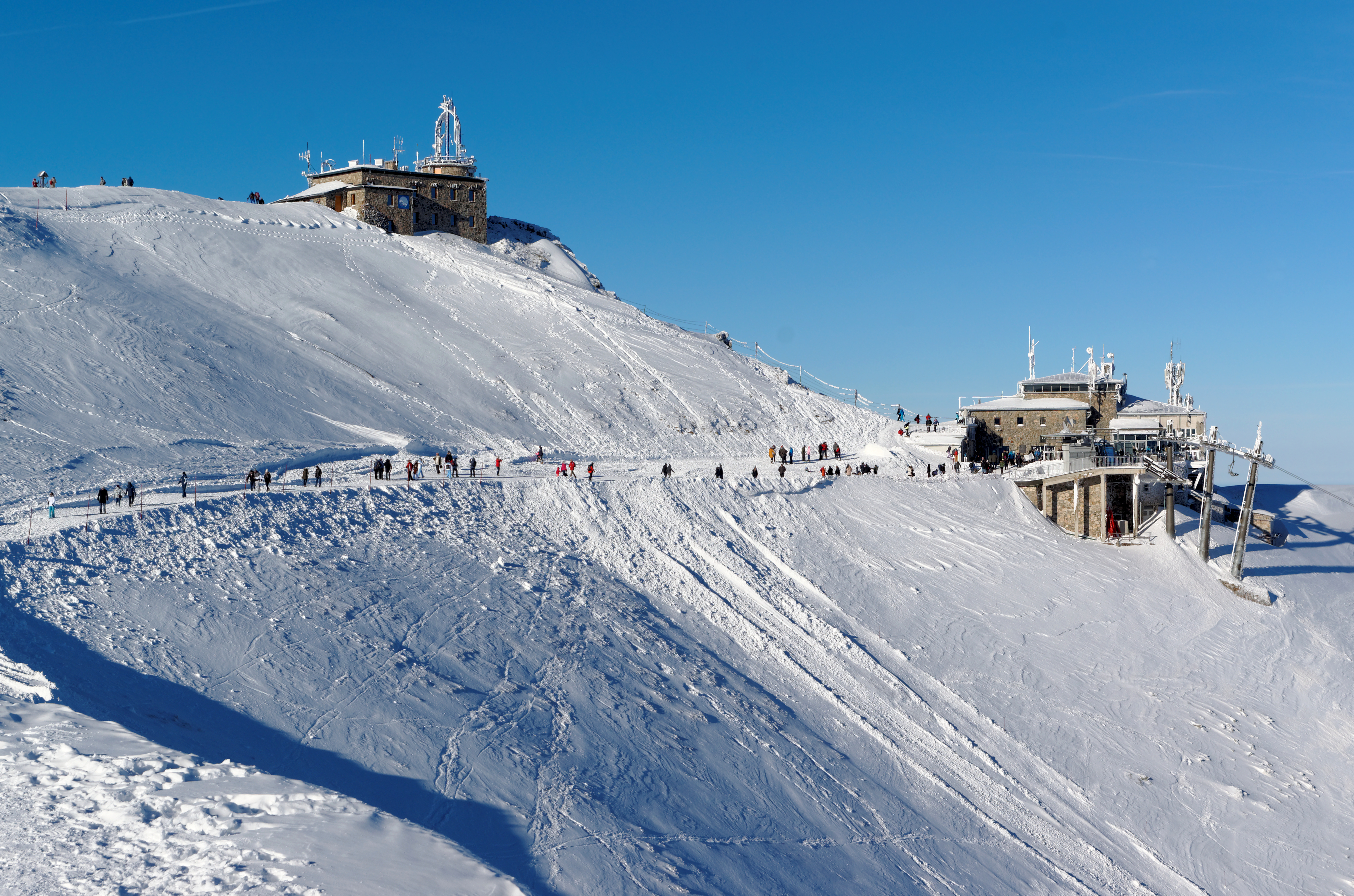 Kasprowy Wierch in Tatra Mountains